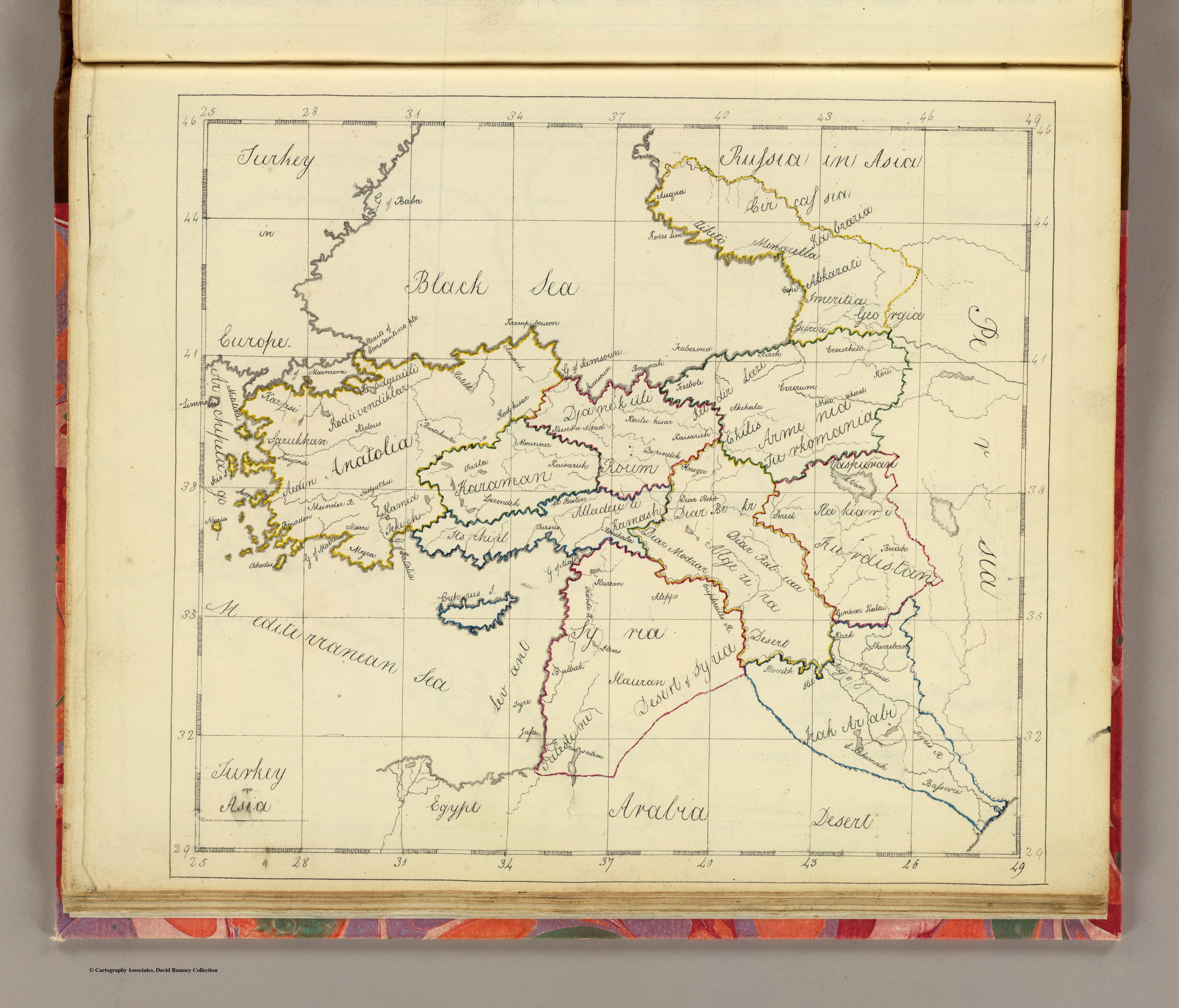 Turkey in Asia. (By Frances Bowen. 1810)